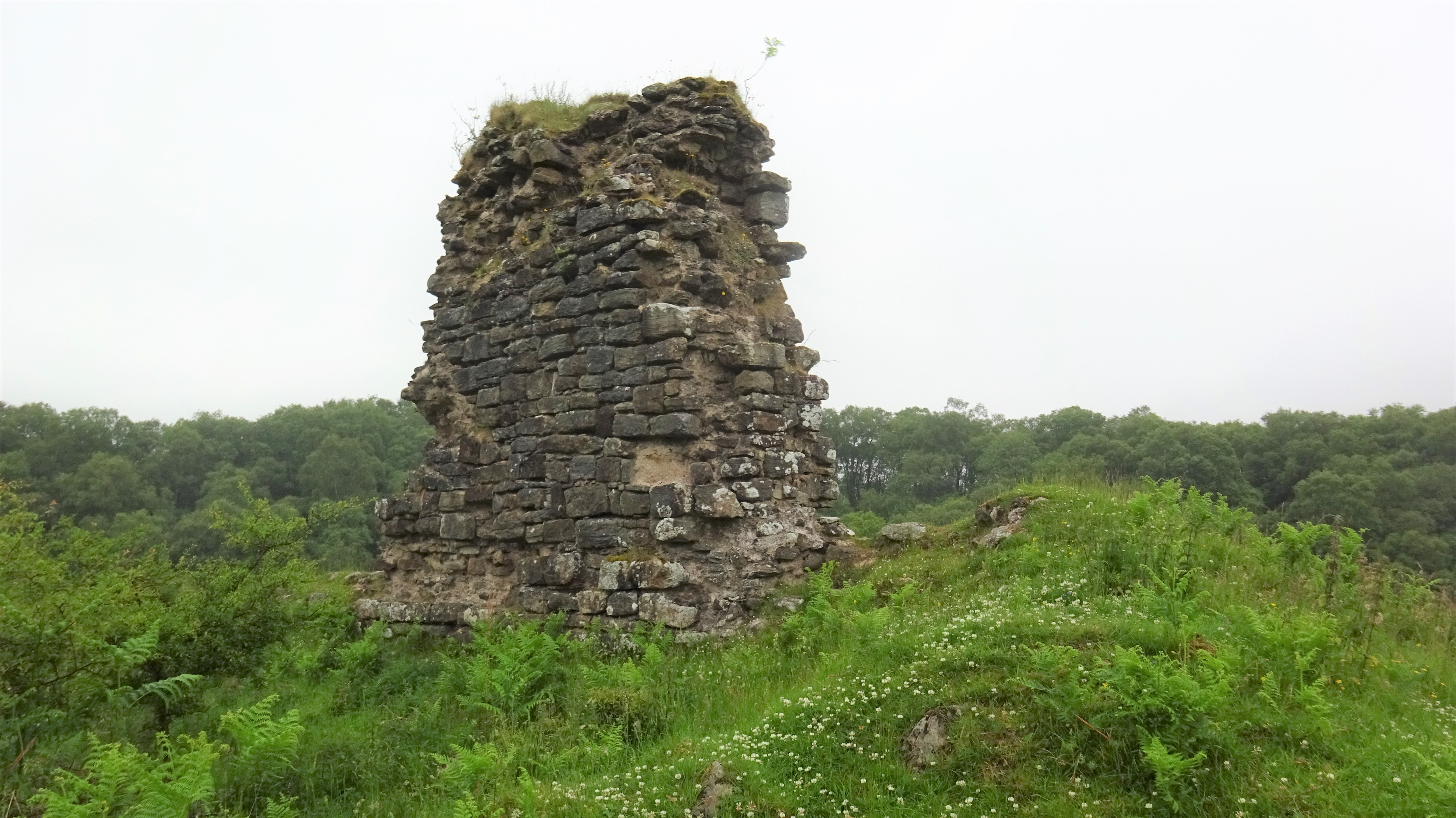 Kyle Castle from the north-west, Dalblair, East Ayrshire, Scotland. Held by the Farquhars of Gilmilnscroft in 1445, then the Cunninghames and the Stewarts of Bute. Old Kyle Regis area. Locally known as Coila Castle.